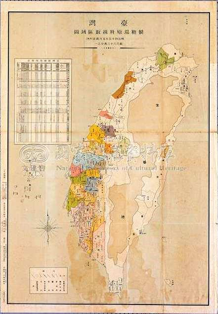 較早期（1912年）的臺灣的製糖工廠與原料採集區域分布。當時臺灣共有臺清、大日本、明治等20間製糖會社，甚至臺北也有「臺北製糖株式會社」，原料採集區在台北盆地。而東部的製糖業才剛起步，糖業只分布在花東縱谷的北端。